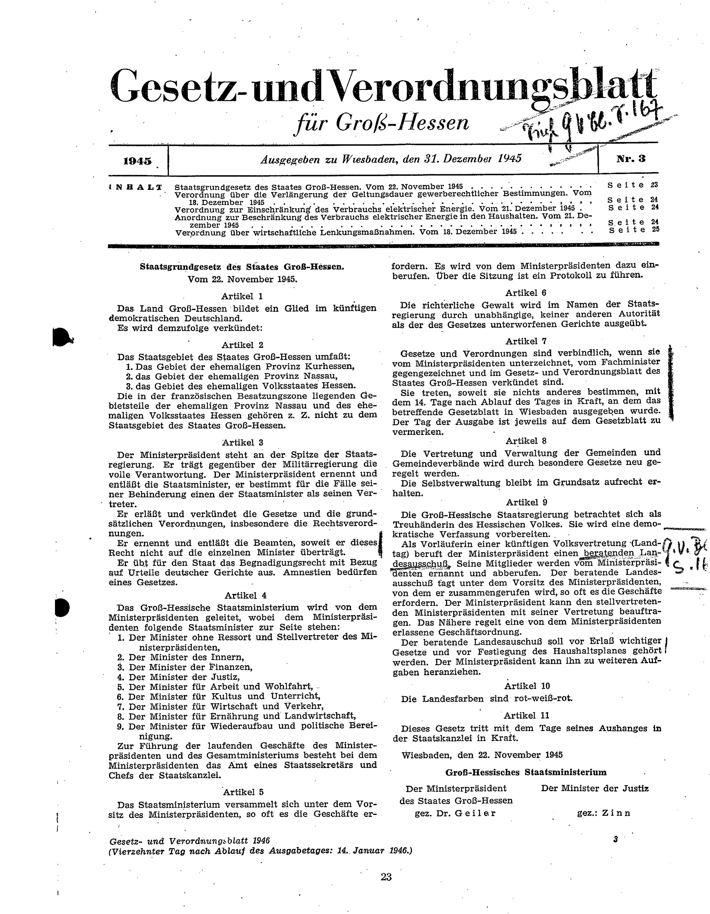 Constitution for Greater Hesse (1945)